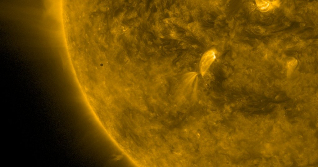 Mercury Transit 2016, May 9th from 7:55am ET #MercuryTransit photo by SDO, from NASA twitter